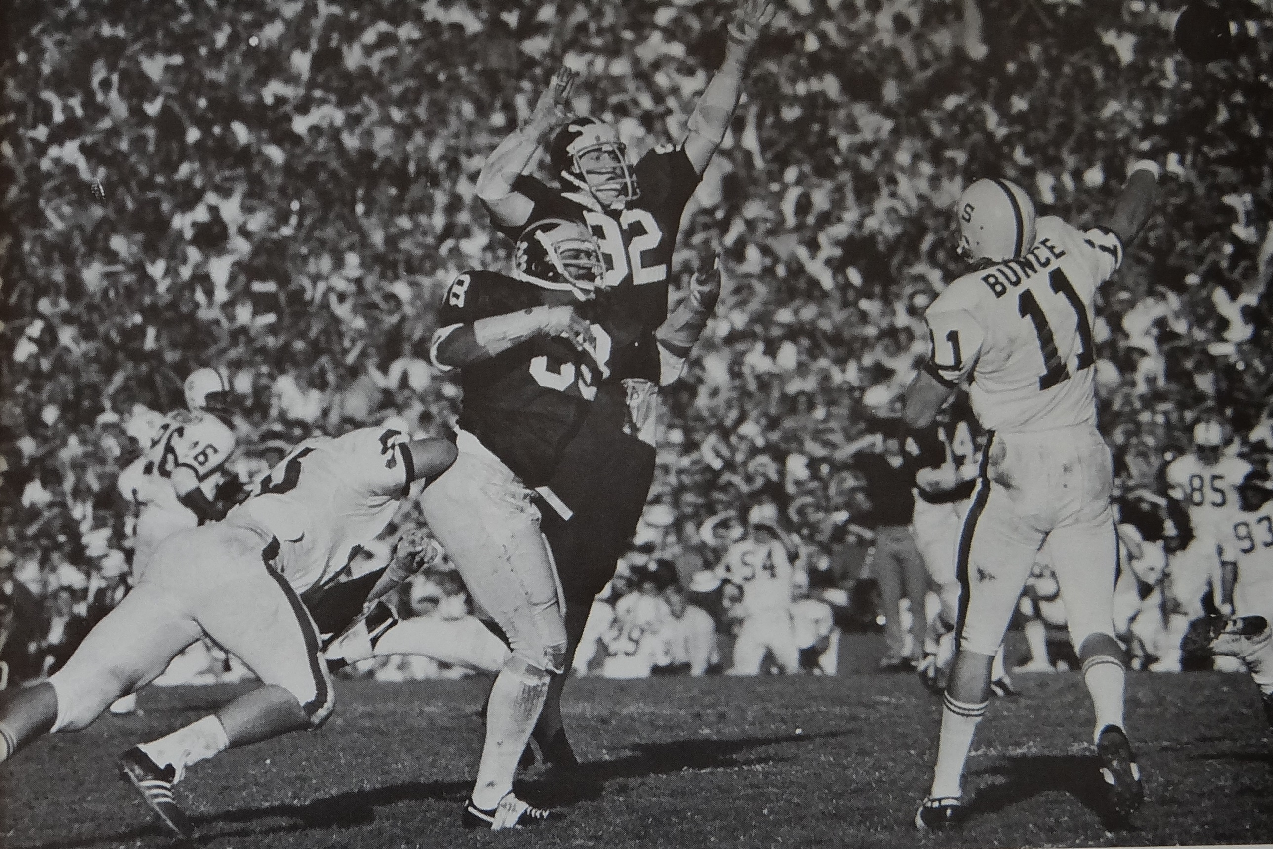 Photograph from the 1972 Rose Bowl of Michigan football players Fred Grambau (92) and Greg Ellis (99) rushing Stanford quarterback Don Bunce